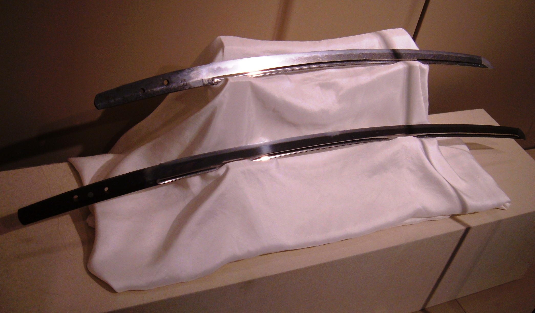 Daishō (wakizashi at top, katana at bottom) minus their respective scabbards and tsuba on display at the Asian Art Museum in San Francisco, California.